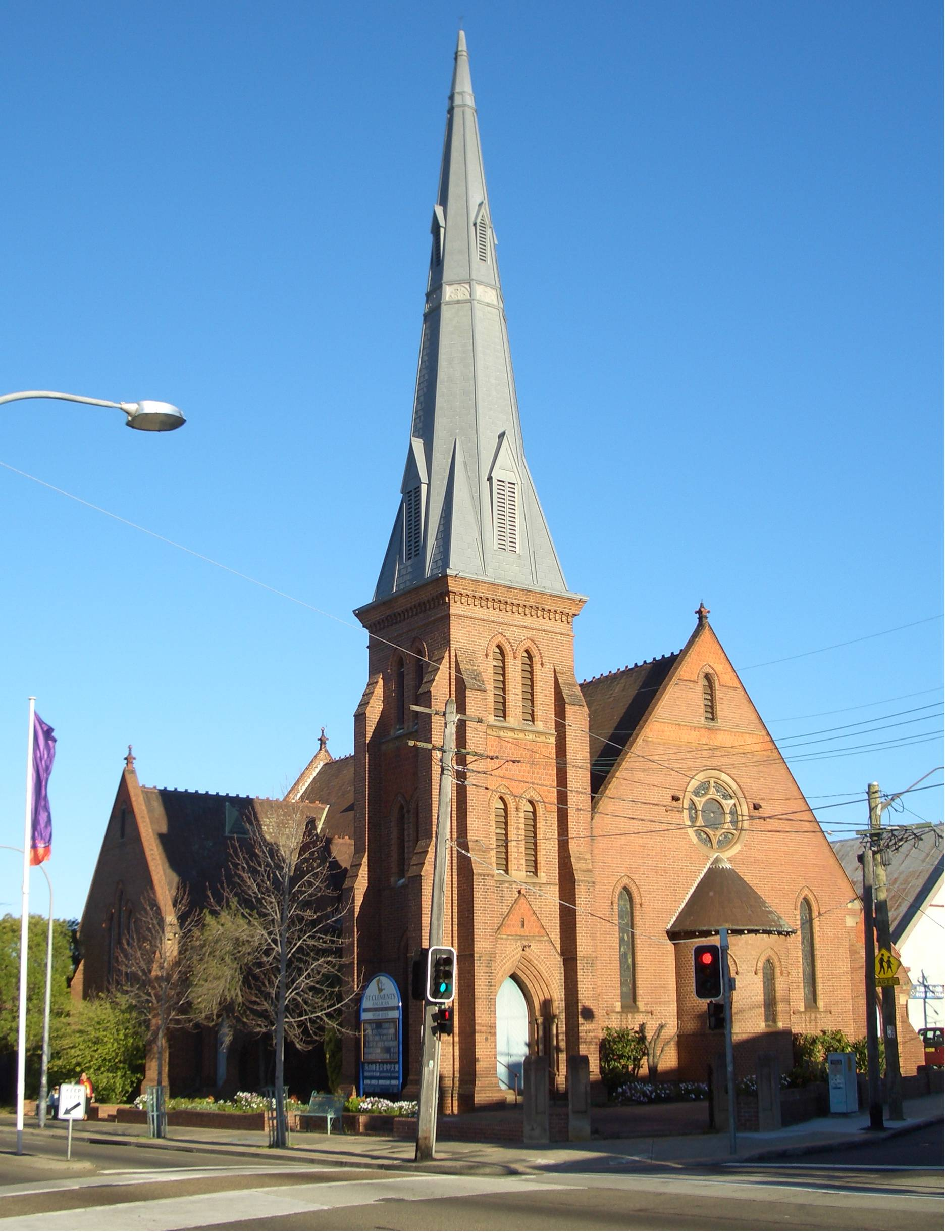 St Clement's Anglican Church, Marrickville, Sydney, Australia. I took this photo on the 20th August 2006. J Bar 03:44, 24 August 2006 (UTC)